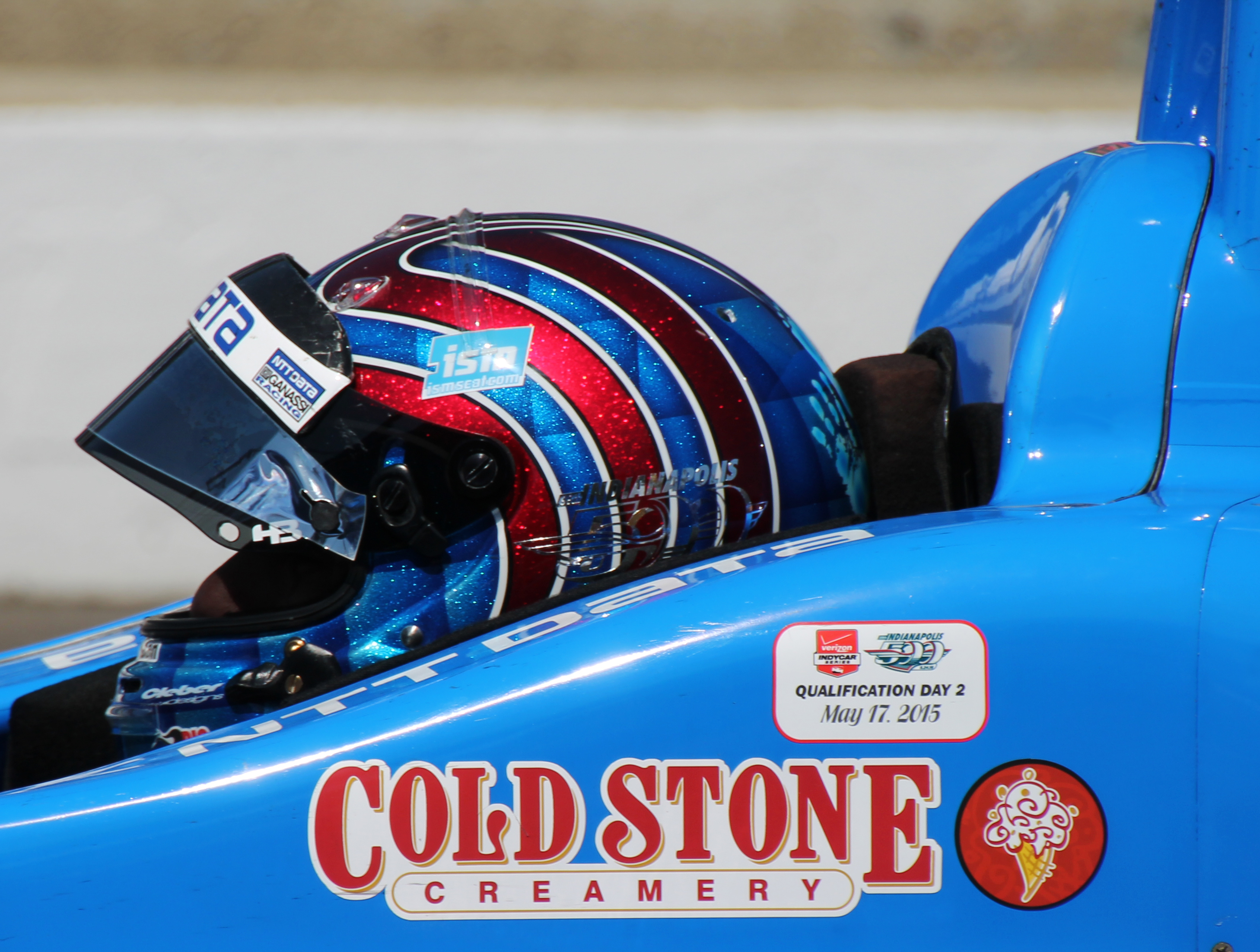 Tony Kanaan at practice during Carb Day 2015 at the Indianapolis Motor Speedway